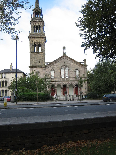 Elmwood Hall, University Road. Formerly Elmwood Presbyterian Church, built in 1862, the three-tier tower was completed in 1872. The deconsecrated building is now the home of the Ulster Orchestra.